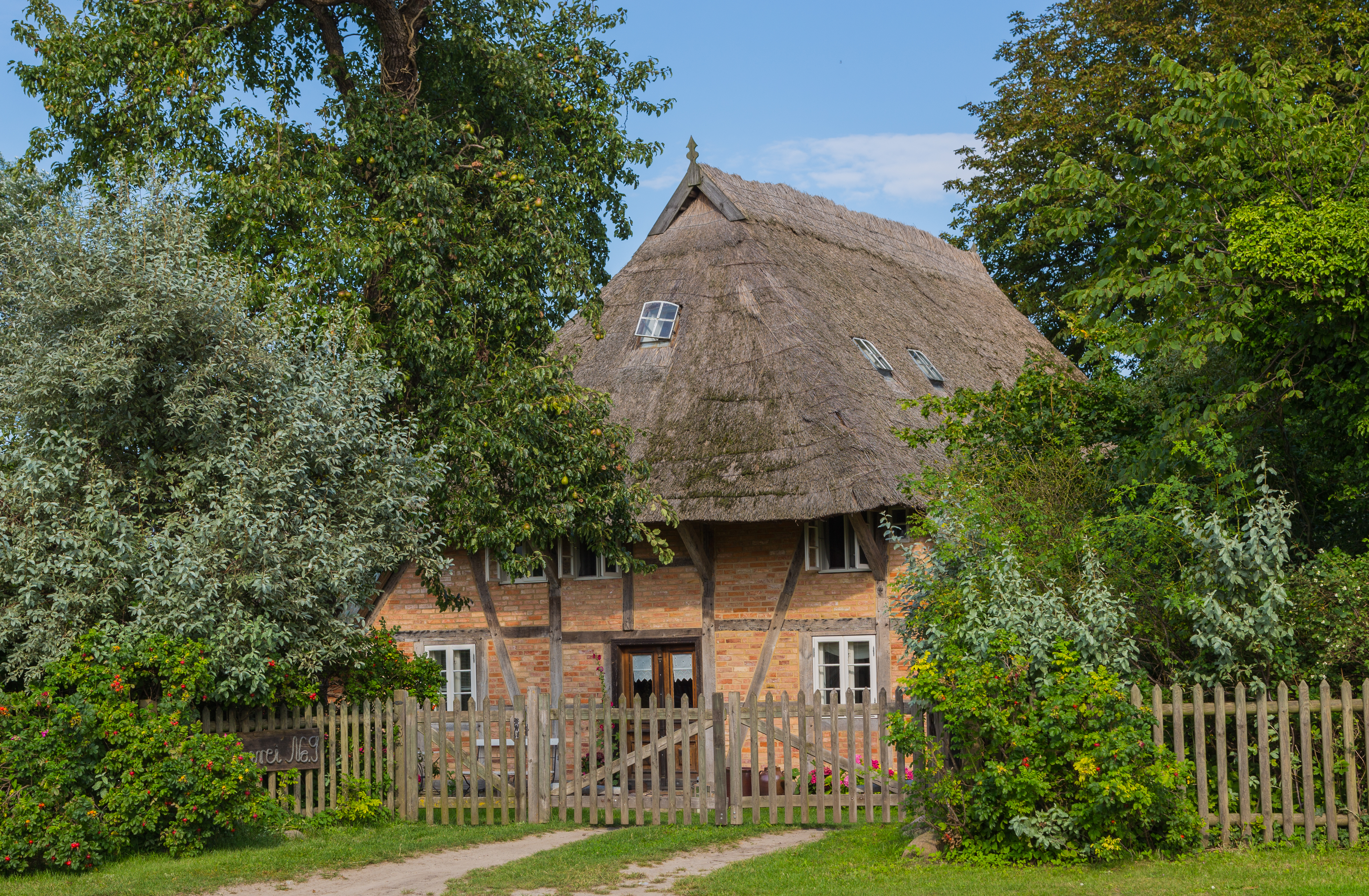 The former farmhouse, a so called Büdnerei, 8A Niehagen Street (Niehäger Straße 8a) in Ahrenshoop-Niehagen, Landkreis Vorpommern-Rügen, Mecklenburg-Vorpommern, Germany.